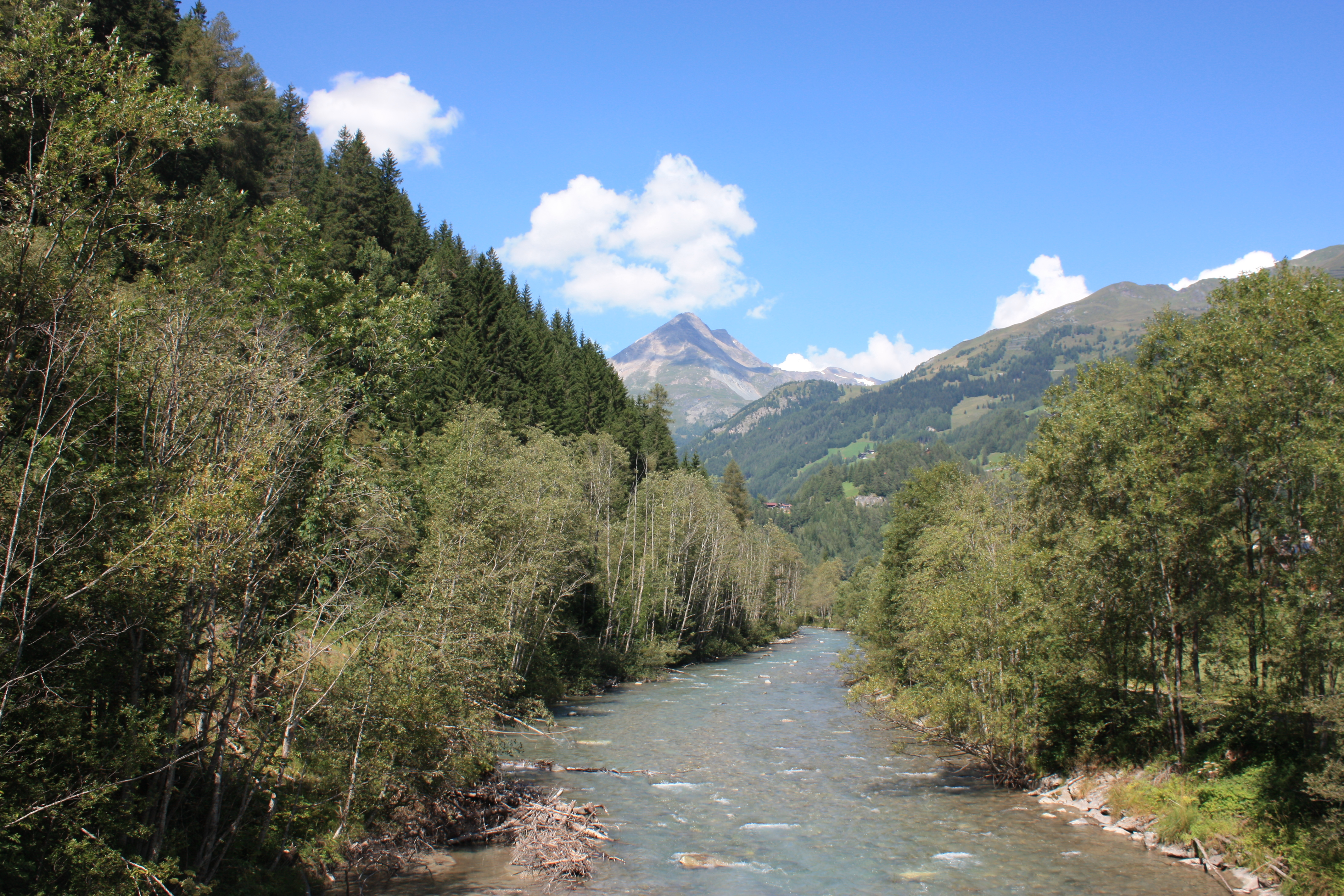 Möll - View upwards to the river Locality: Aichhorn Community:Heiligenblut